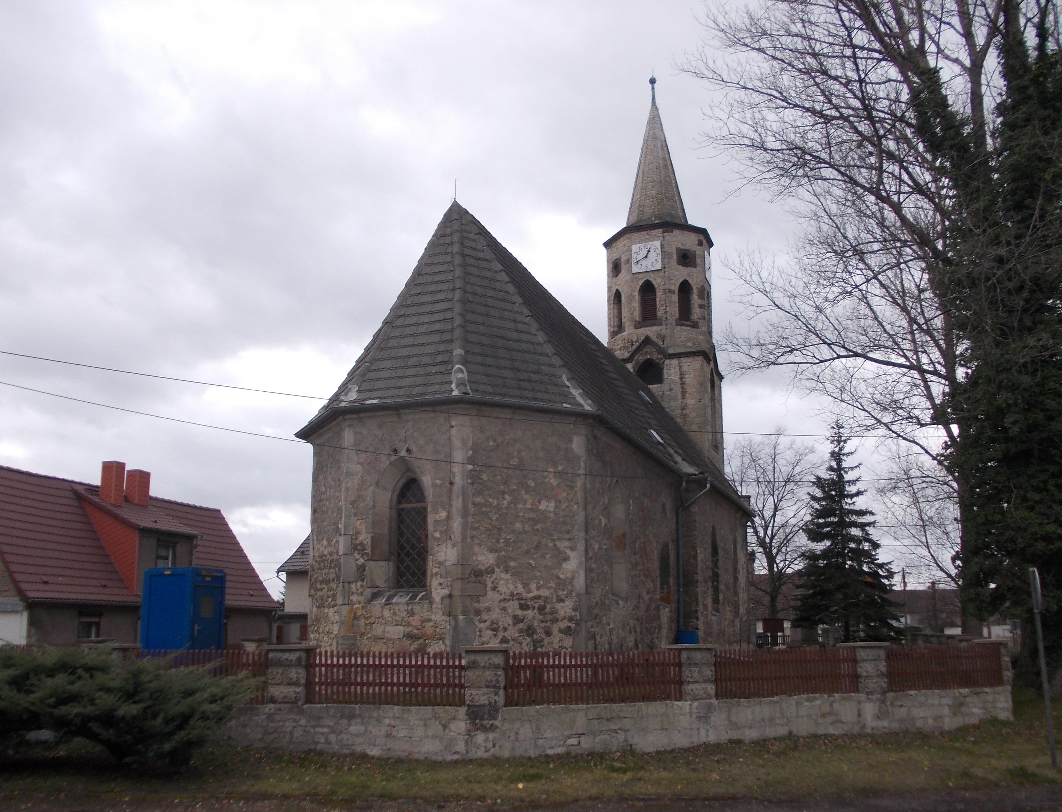 St. Margaret's Church in Lunstädt (Braunsbedra, district: Saalekreis, Saxony-Anhalt)